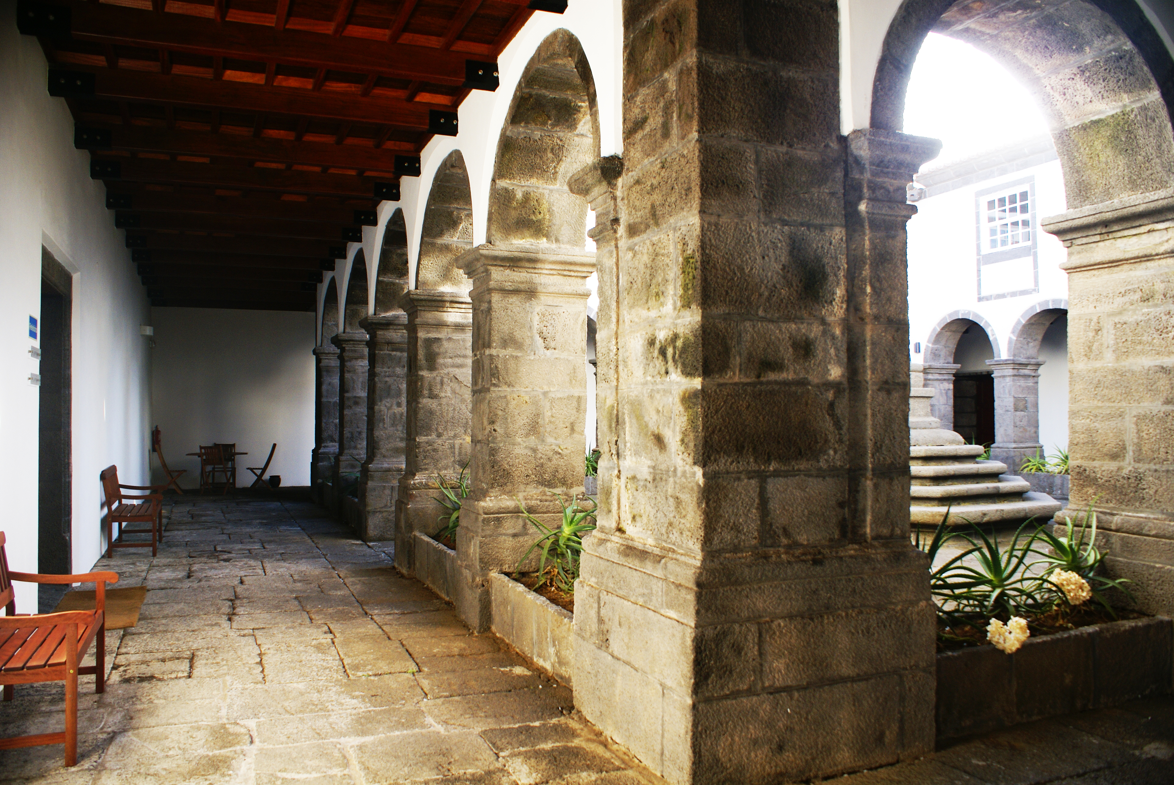 Clauster of the Convent of São Pedro de Alcântara, São Roque, Pico (Azores), Portugal